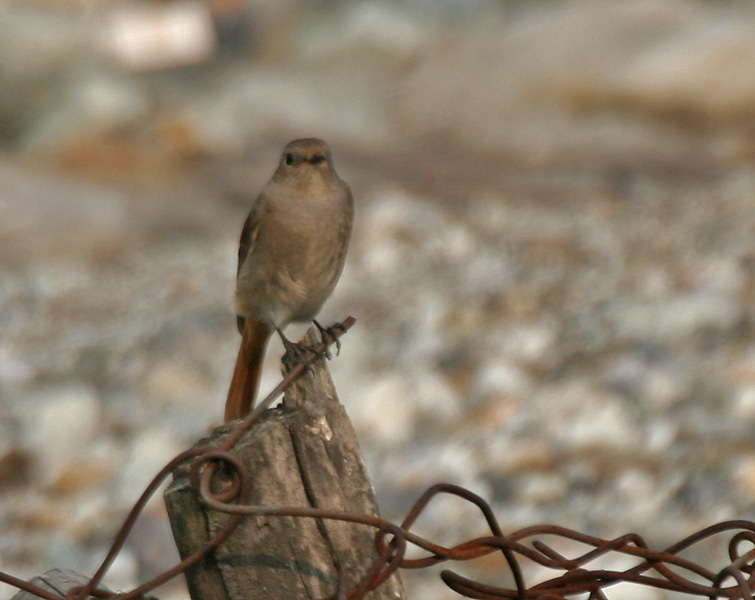 Black Redstart Phoenicurus ochruros at Jayanti in Buxa Tiger Reserve in Jalpaiguri district of West Bengal, India.